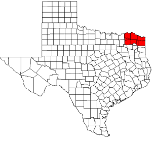 Map of Texas highlighting counties served by the Ark-Tex Council of Governments; created by User:Acntx.